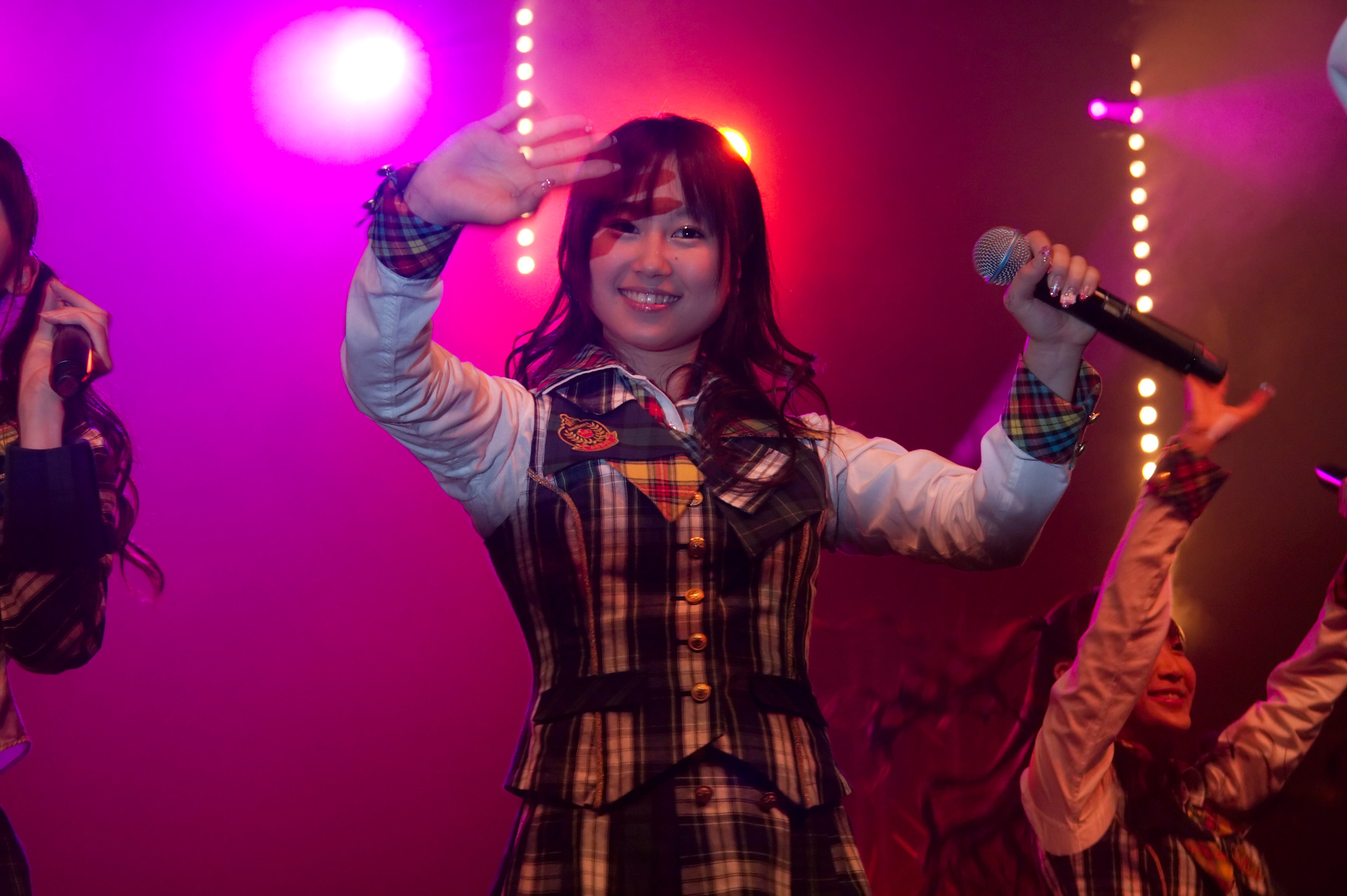 Kana Kobayashi, from the group AKB48, live at Japan Expo 2009 (Paris, France).